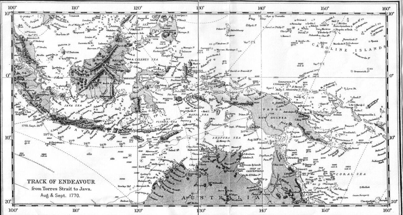 This is an image of a chart showing the track of HM Bark Endeavour during the first voyage of exploration of Lieutenant (later Captain Sir) James Cook.